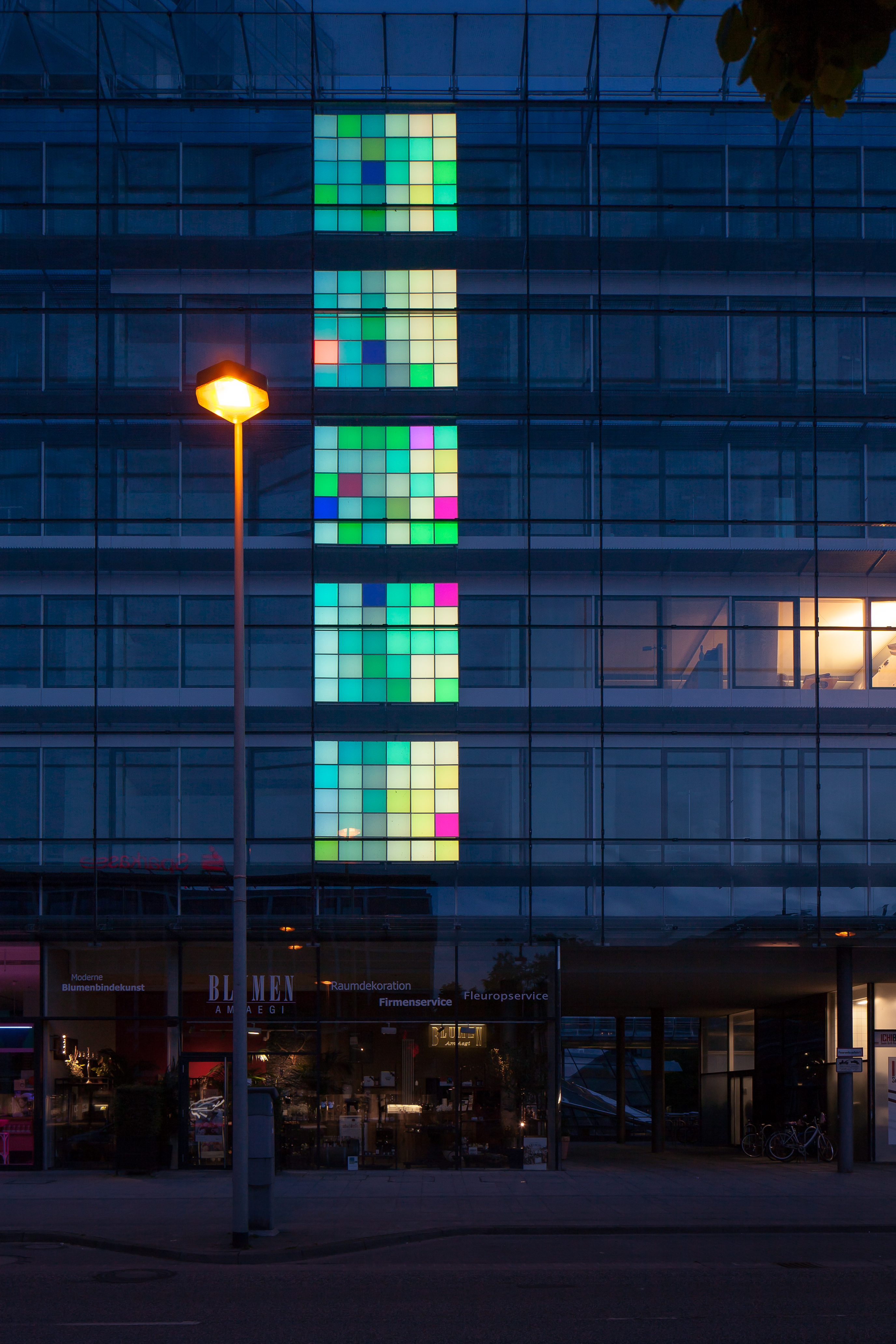 Pixel wall artwork permanently installed at the facade of the Nord-LB office building in Hanover, Germany. The wall points to Friedrichswall street.